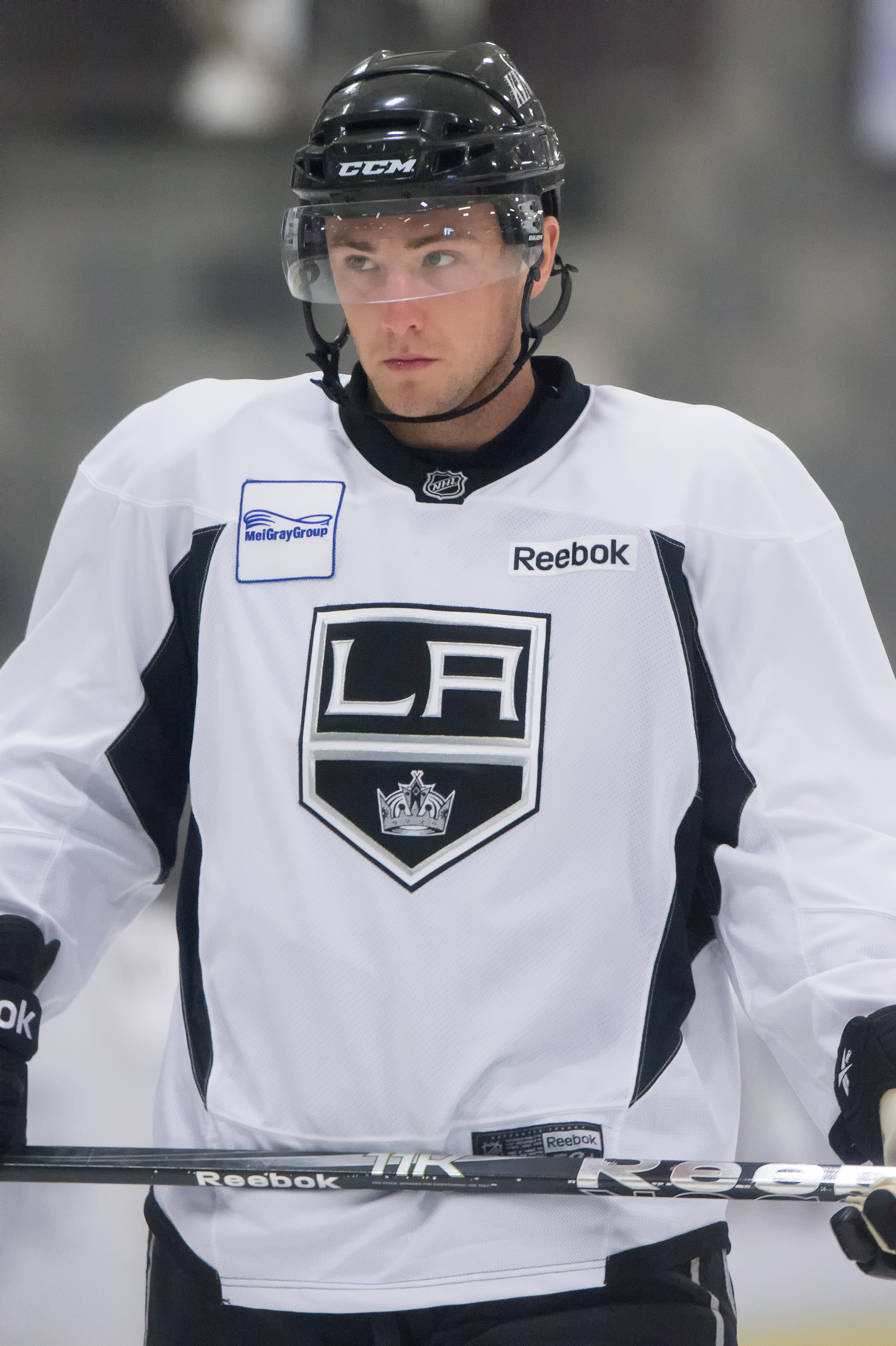 Barclay Goodrow in 2012